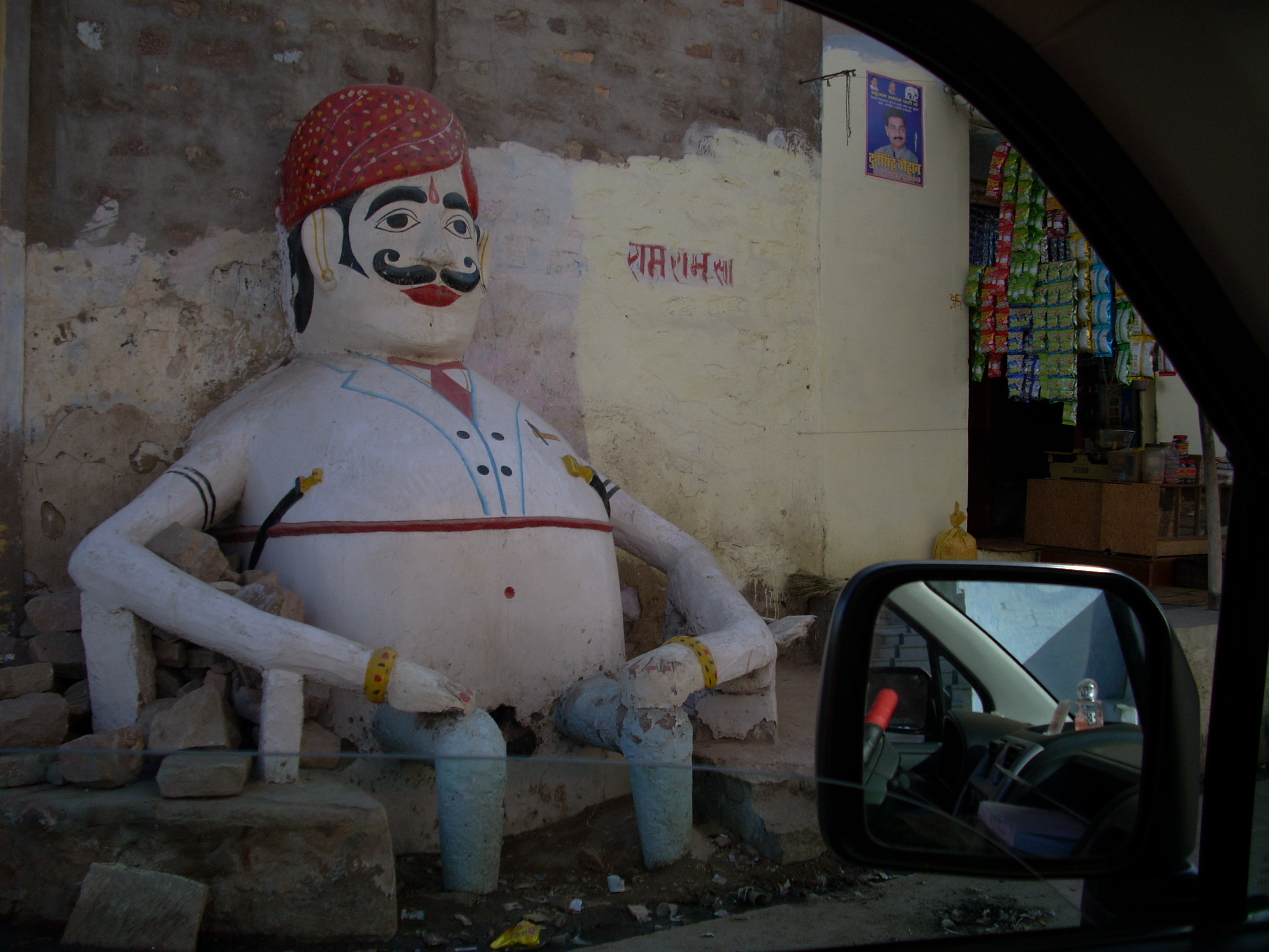 Local Deity Eloji